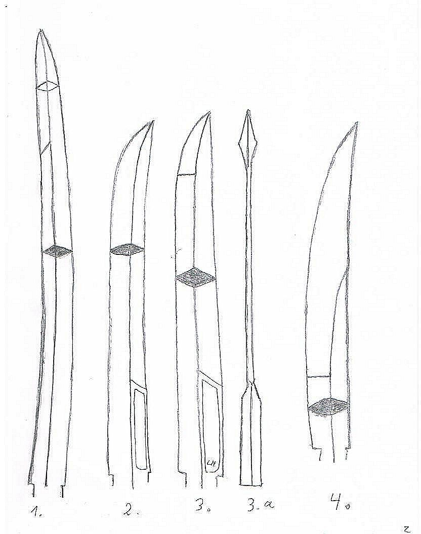 Types of sword structures at japanese swords